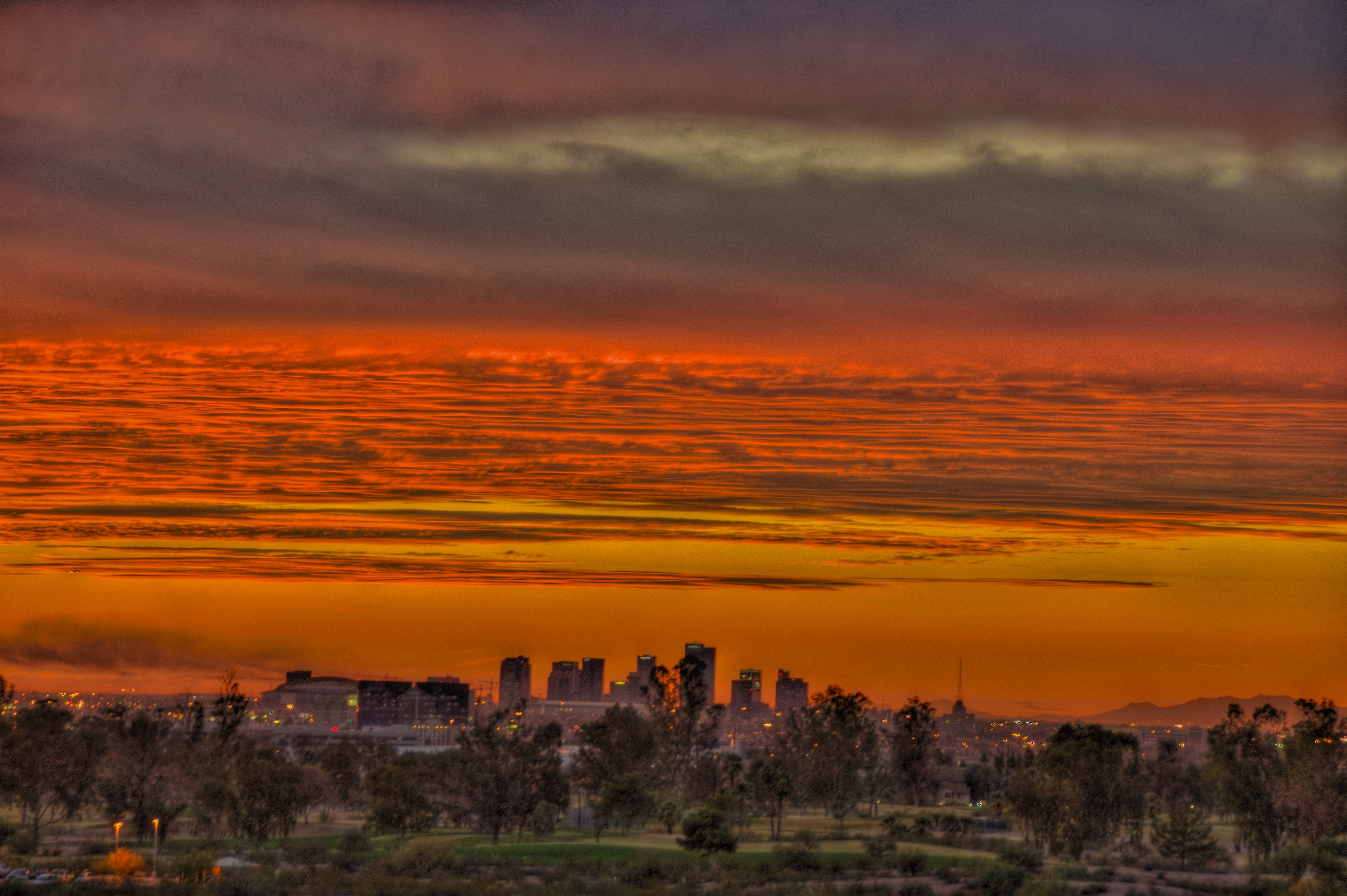 HDR of downtown Phoenix from hole in the rock, Papago Park.